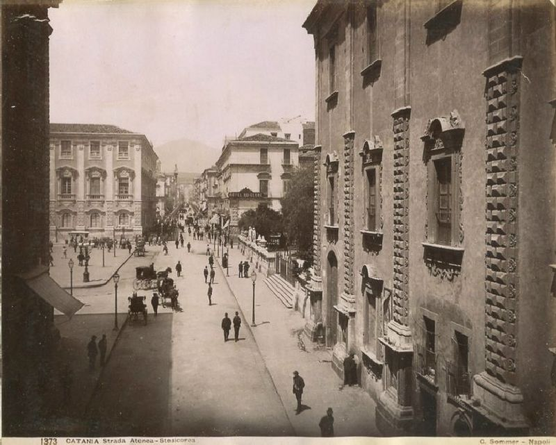 Giorgio Sommer (1834-1914),"Catania - Steets Ateneo and Stesicoro" . Catalogue # 1373.